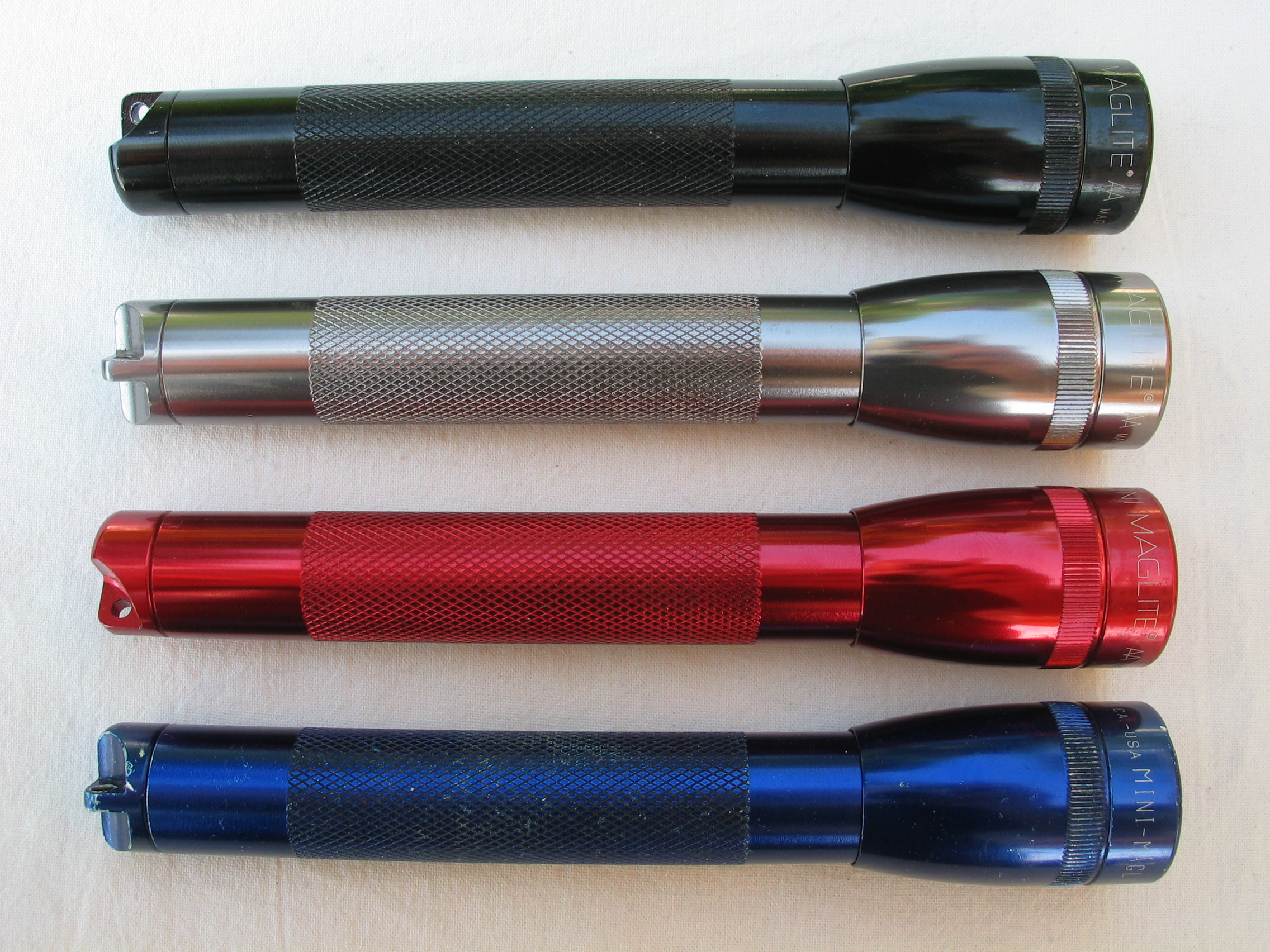 Mini Maglite flashlights in four different colors, photo taken in Sweden